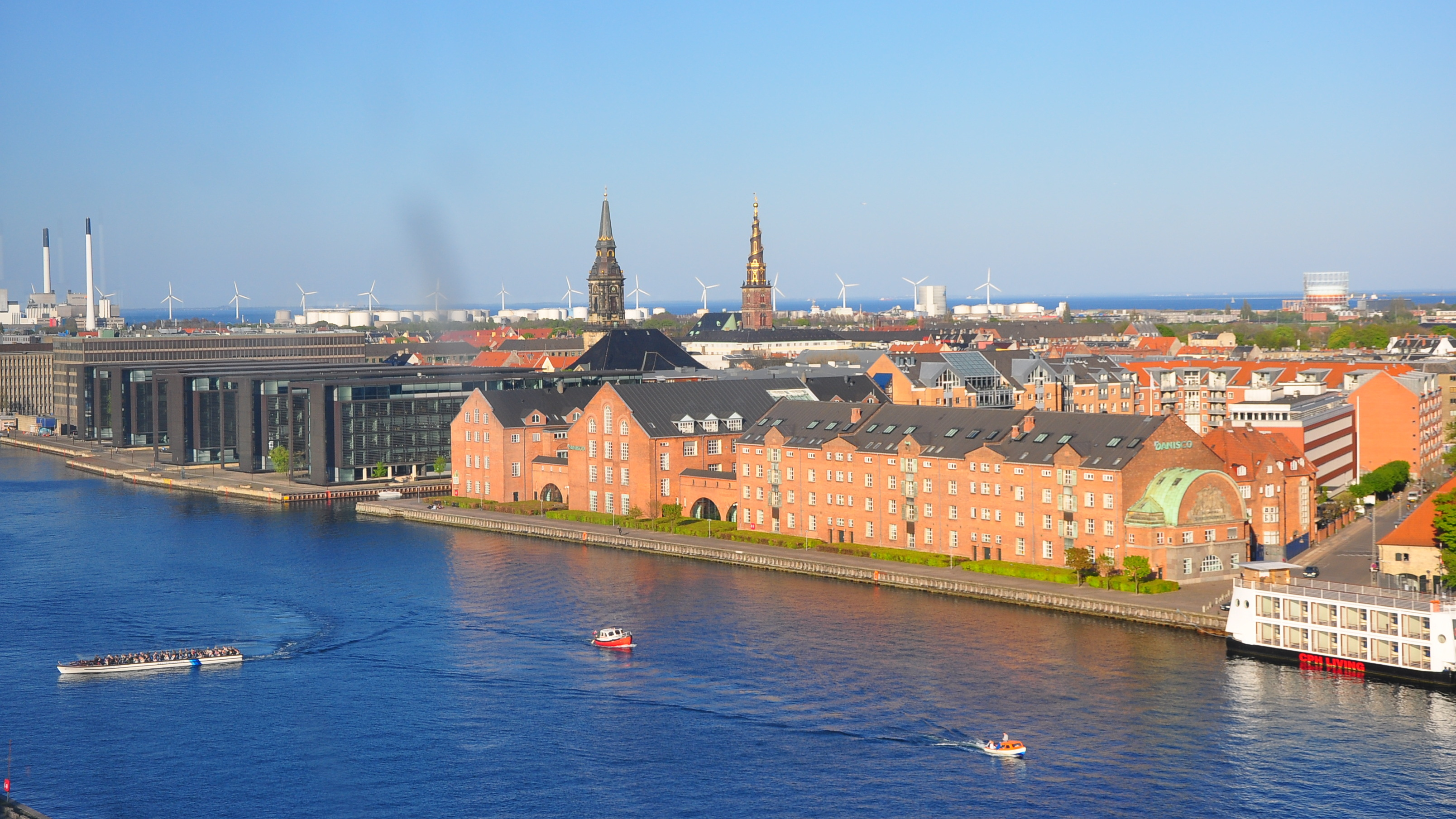 The DABISCO building in Copenhagen Harbour, Denmark